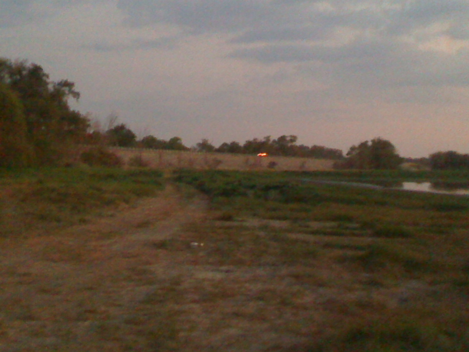 A photo of a portion of Lake Palestine, taken in Henderson County along the extreme northwestern part of the lake during extreme drought conditions.